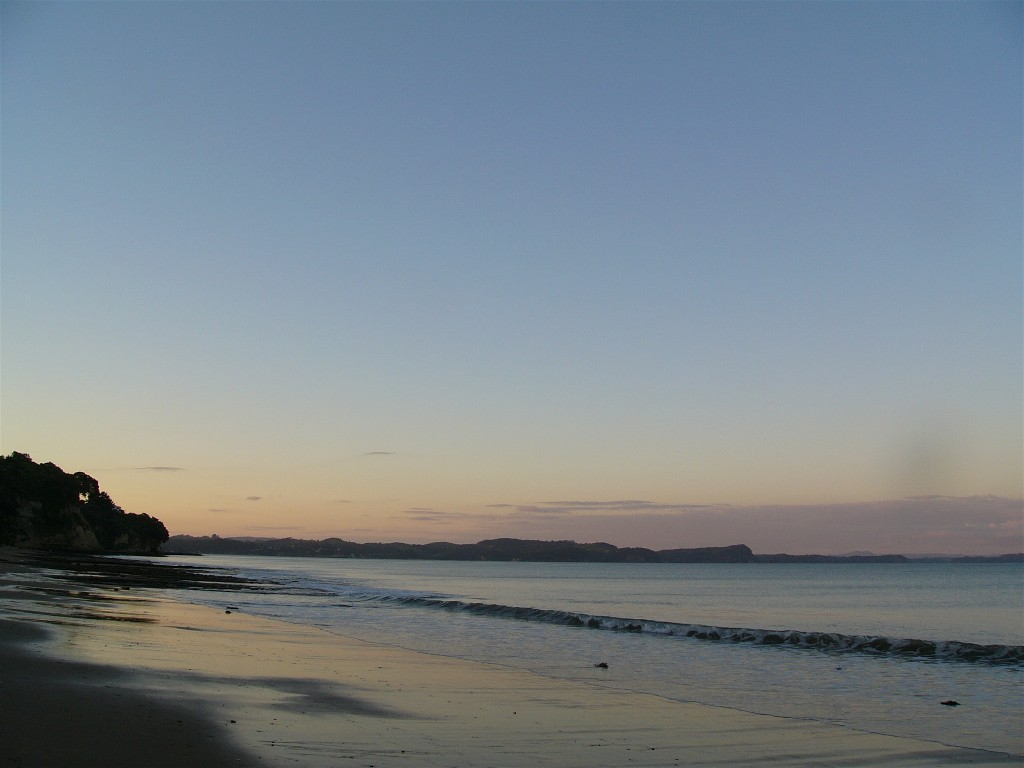 Dusk falls over Stanmore Bay, Whangaparaoa, New Zealand